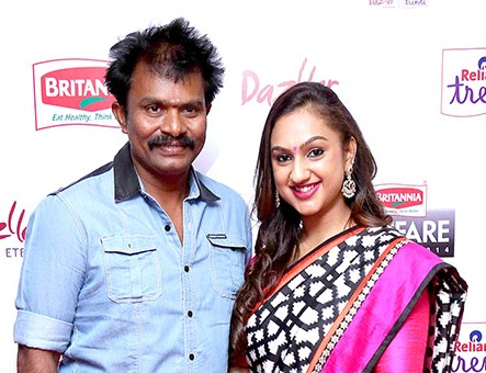 Director Hari with his wife Preetha at 62nd Britannia Filmfare South Awards 2014